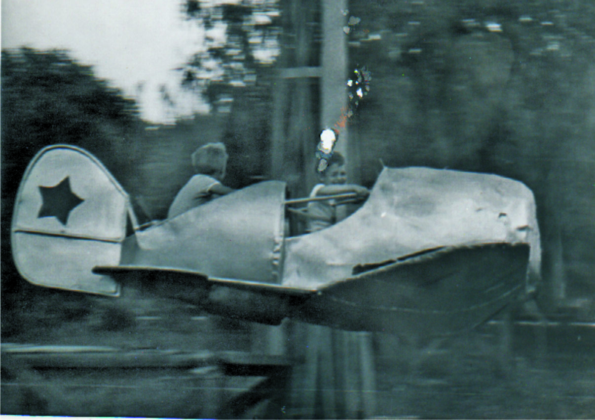 Один из первых аттракционов в парке